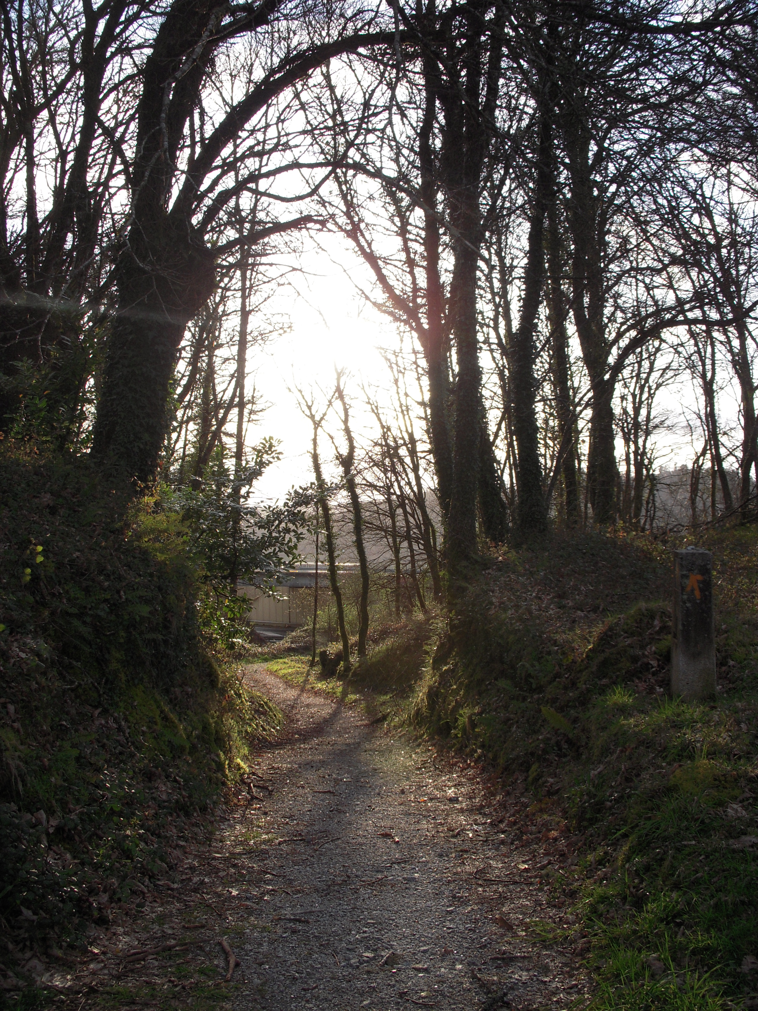 Primitive Way to step Castroverde